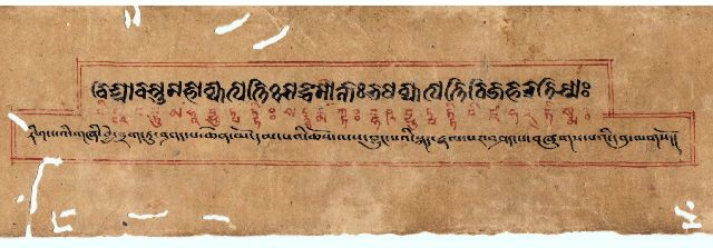 Detail from the title page of an old manuscript copy of the Mahāvyutpatti an ancient Sanskrit-Tibetan lexicon